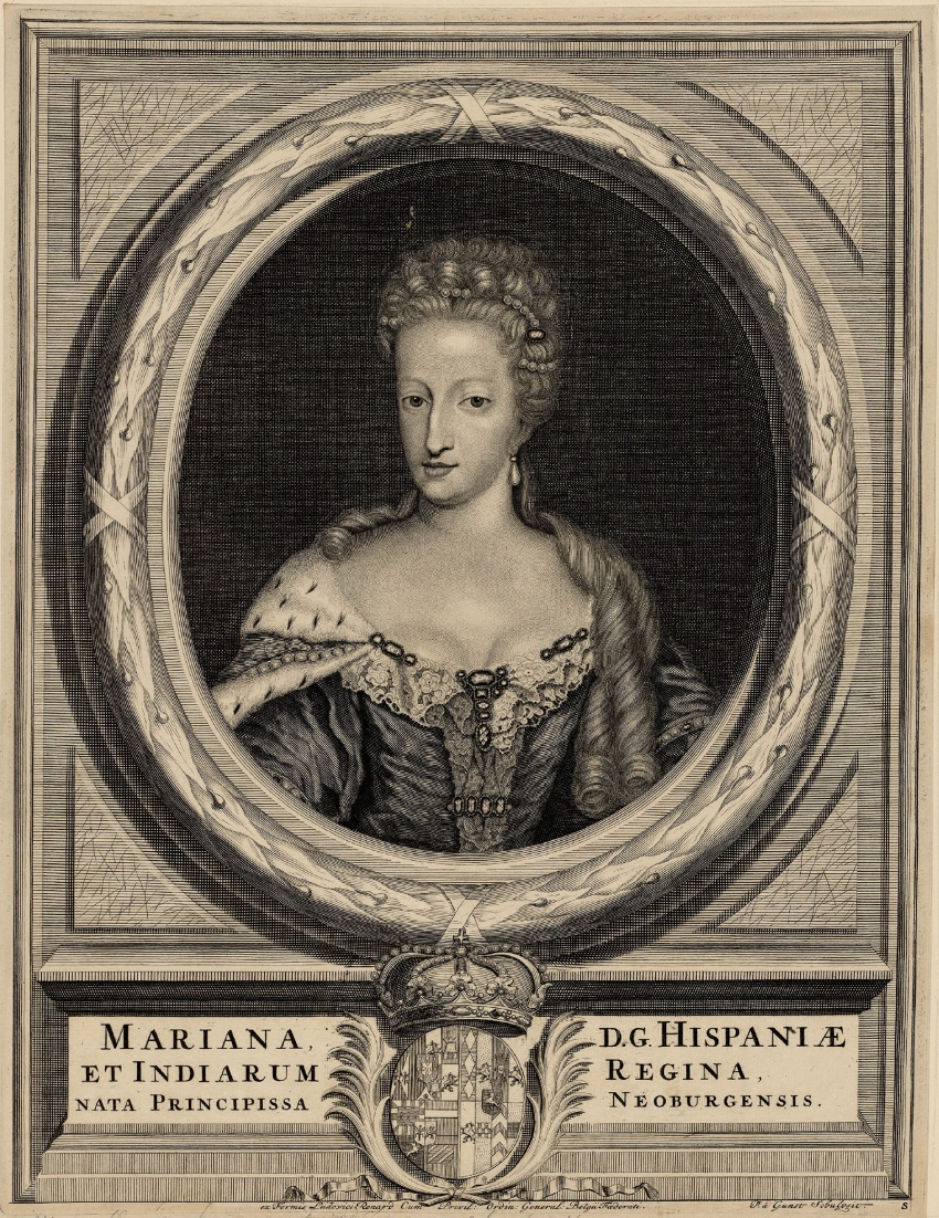 Maria Anna of Neuburg as Queen of Spain